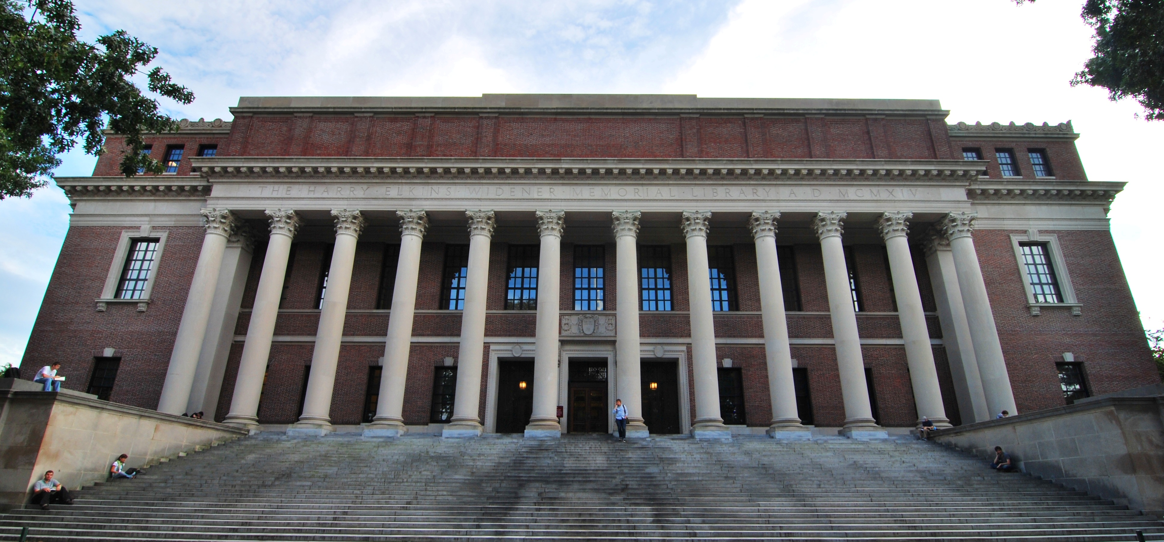 Widener Library, Harvard University 2009